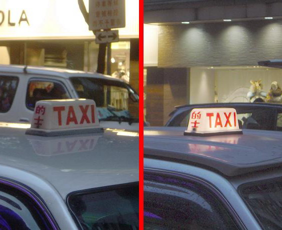 香港的士的車頂顯示燈。The top light of Hong Kong taxi, Hong Kong.